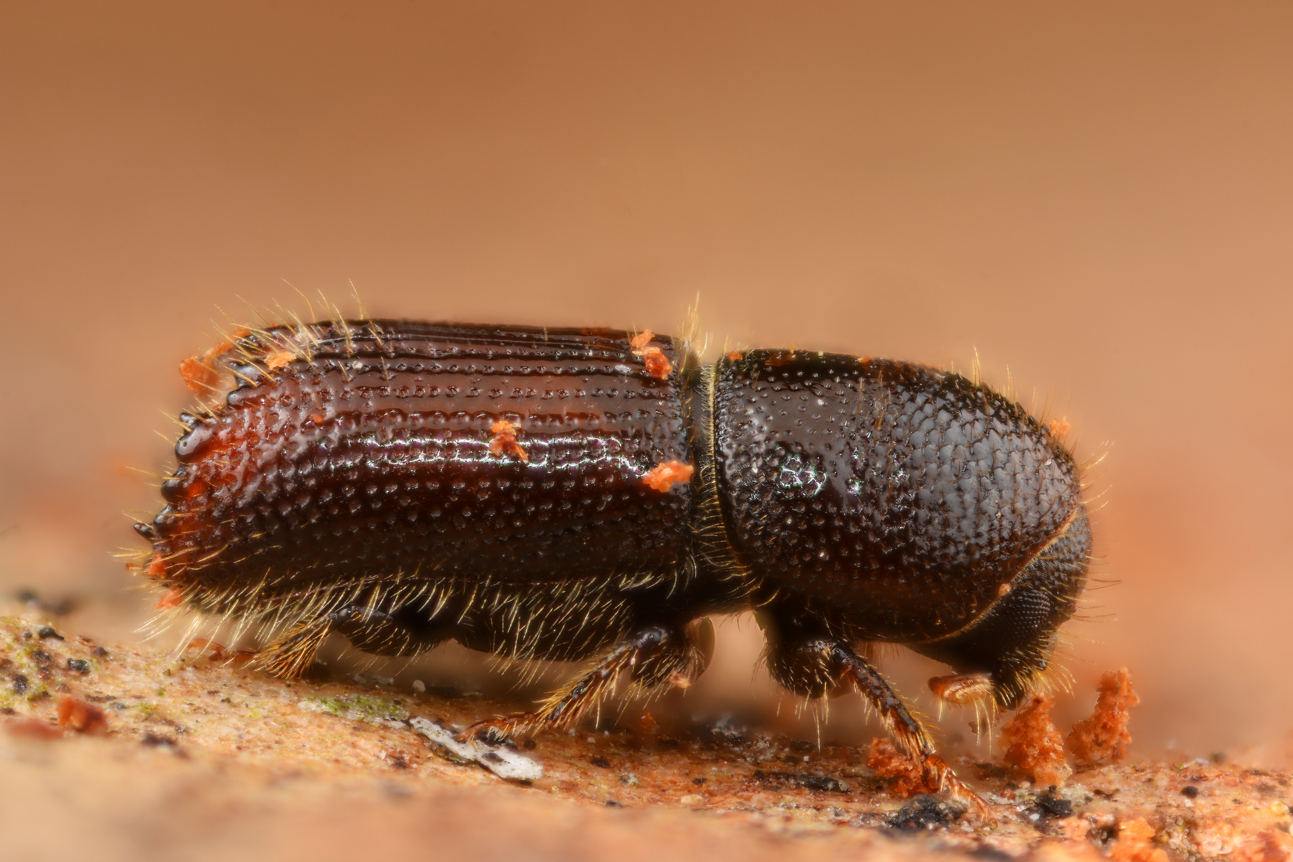 Orthotomicus laricis (Coleoptera - Curculionidae - Scolytinae) found under the bark of Pinus nigra logs. Beetle length : 3 mm Focus stack of 10 pictures Schneider Kreuznach Componon 28 mm f/4 at f/4 reversed on extension tubeswindow-size=5